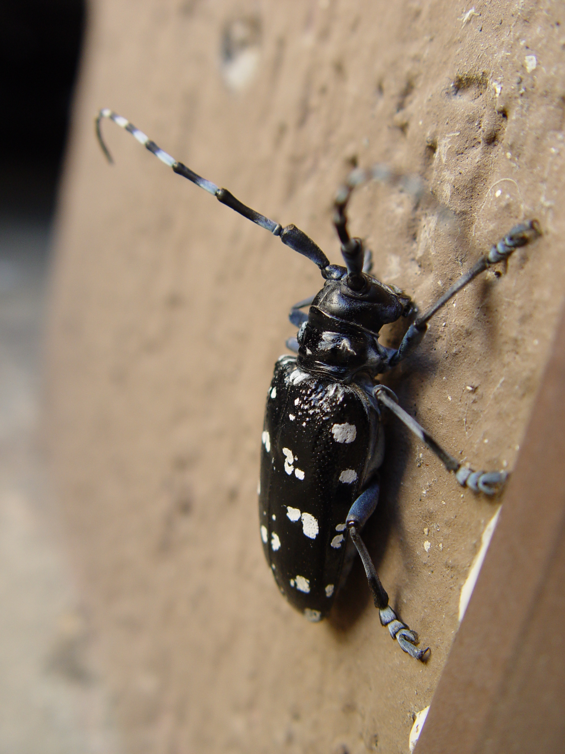 Anoplophora chinensis found near home